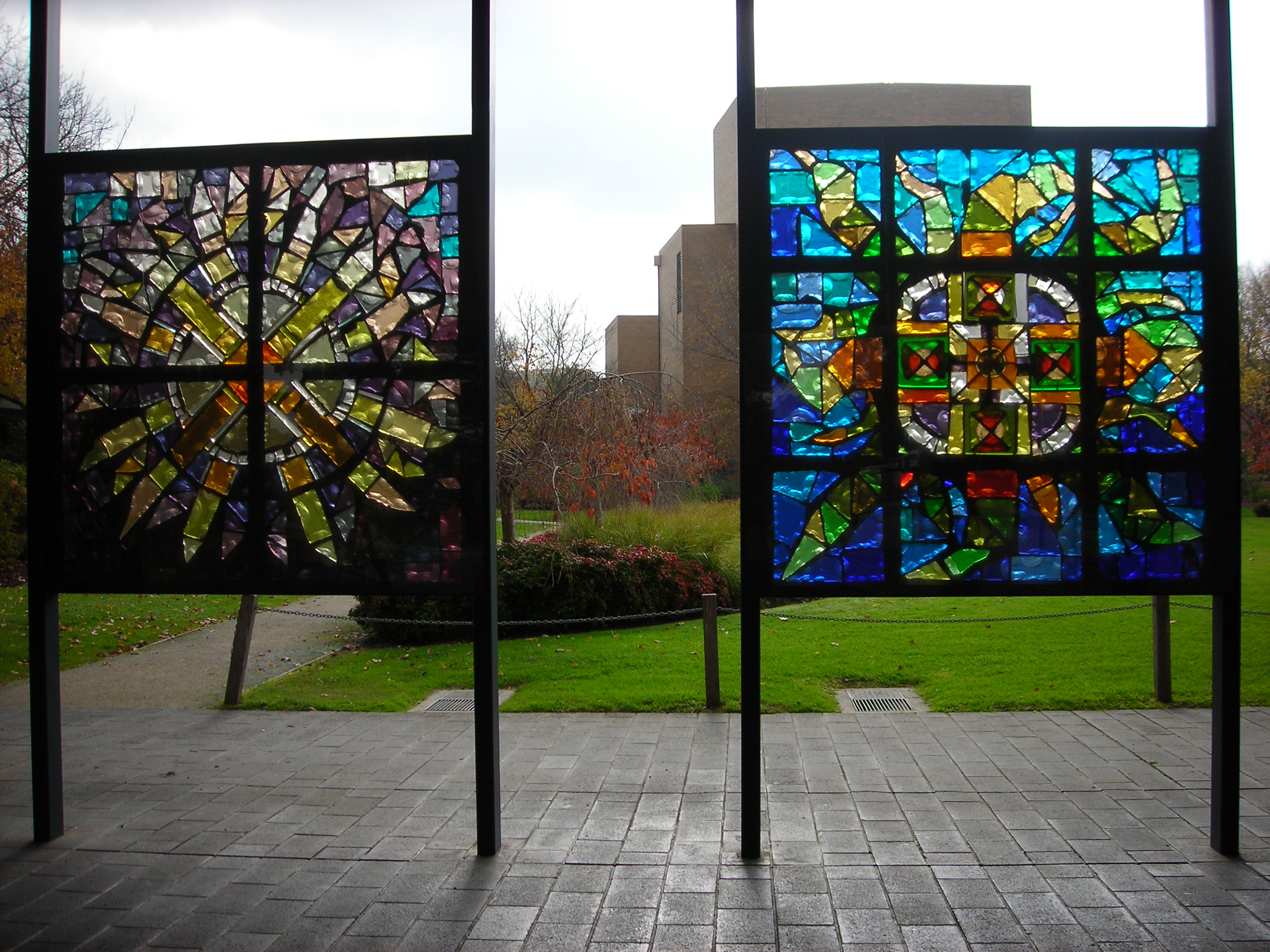 Glass art The Four Seasons (1978) by Leonard French in La Trobe University Sculpture Park/Melbourne/Australia